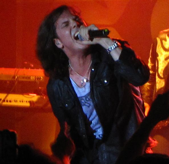 Joey Tempest of the Europe performing in Trnava, Slovakia 2010.